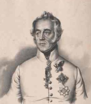 austrian general 1775-52